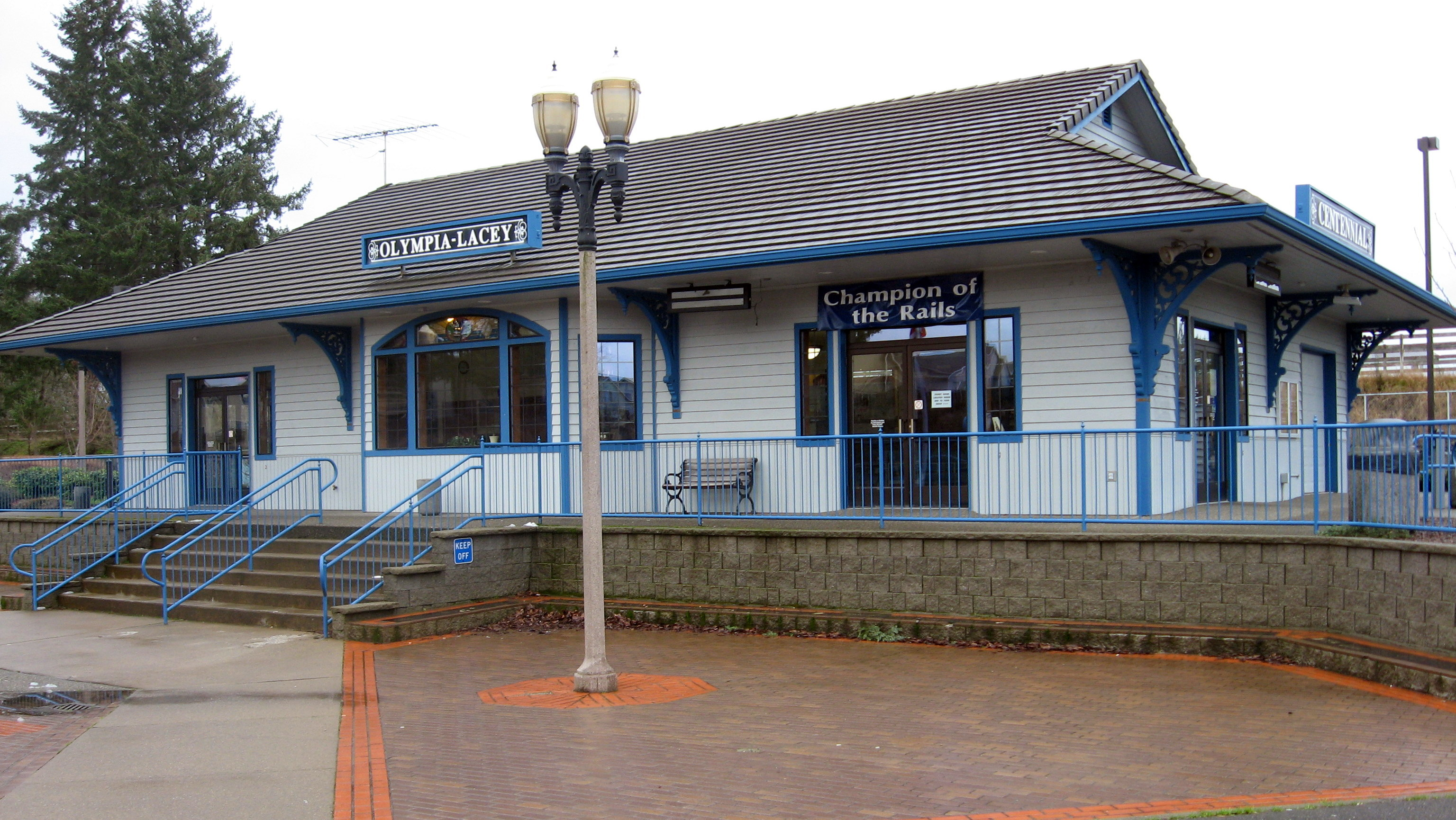 Centennial Station in Olympia, Washington.